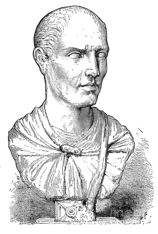 Lucullus, a consul and commander of ancient Rome, 2/1 century BC. Engraving of a marble bust traditionally[1] said to be Lucullus (Hermitage Museum)